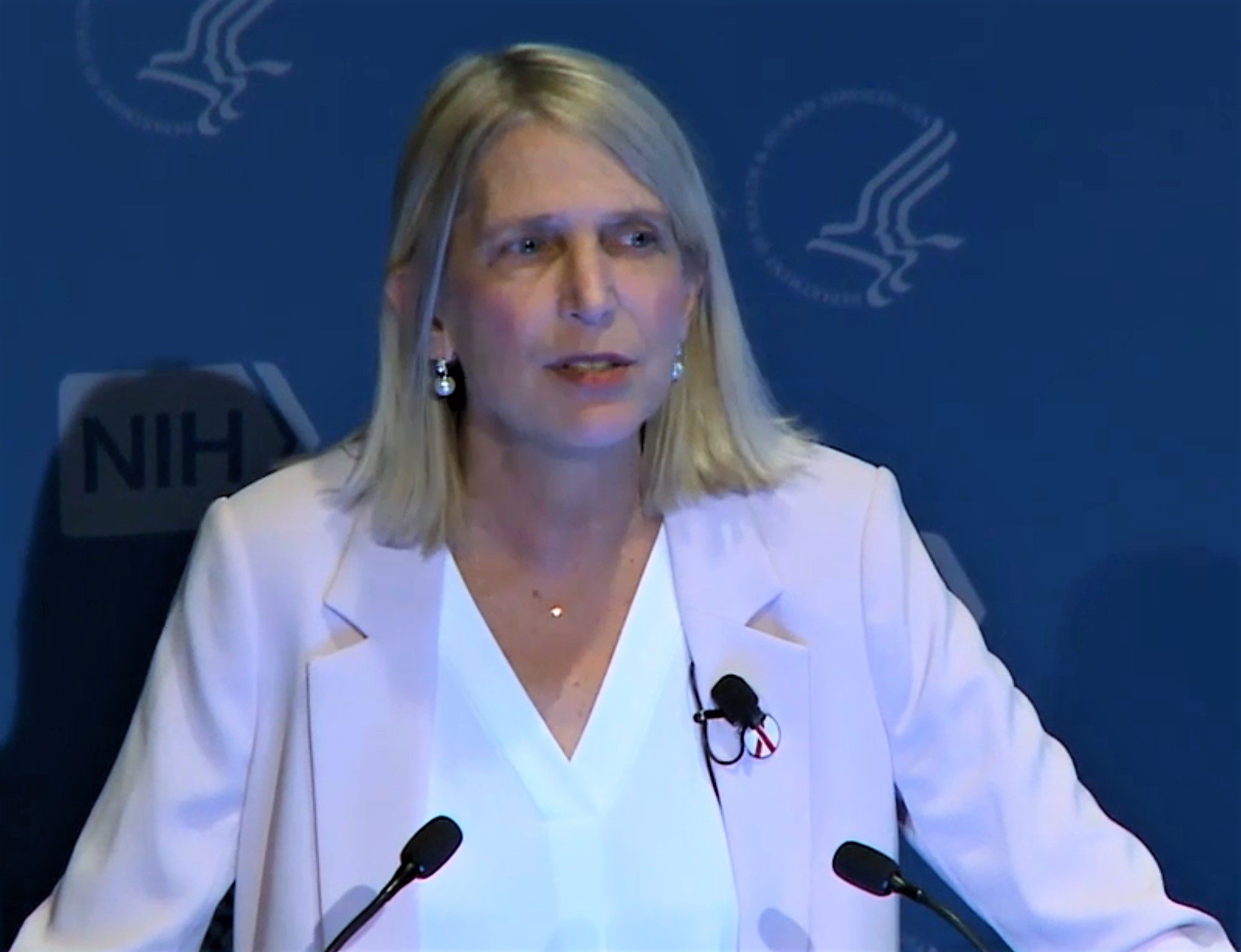 Diane Havlir, Professor of Medicine at University of California San Francisco giving the 2019 James C. Hill Memorial Lecture: "Ending AIDS: The Wild West".